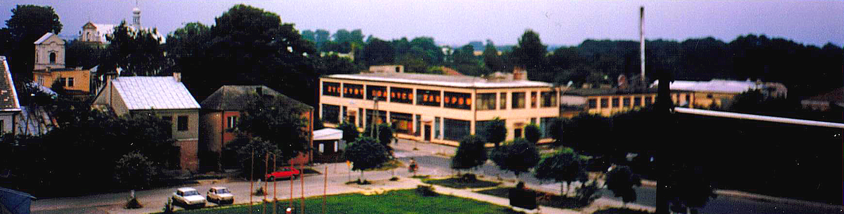 Tarnogród, Poland Panorama of the town square / Panorama rynku